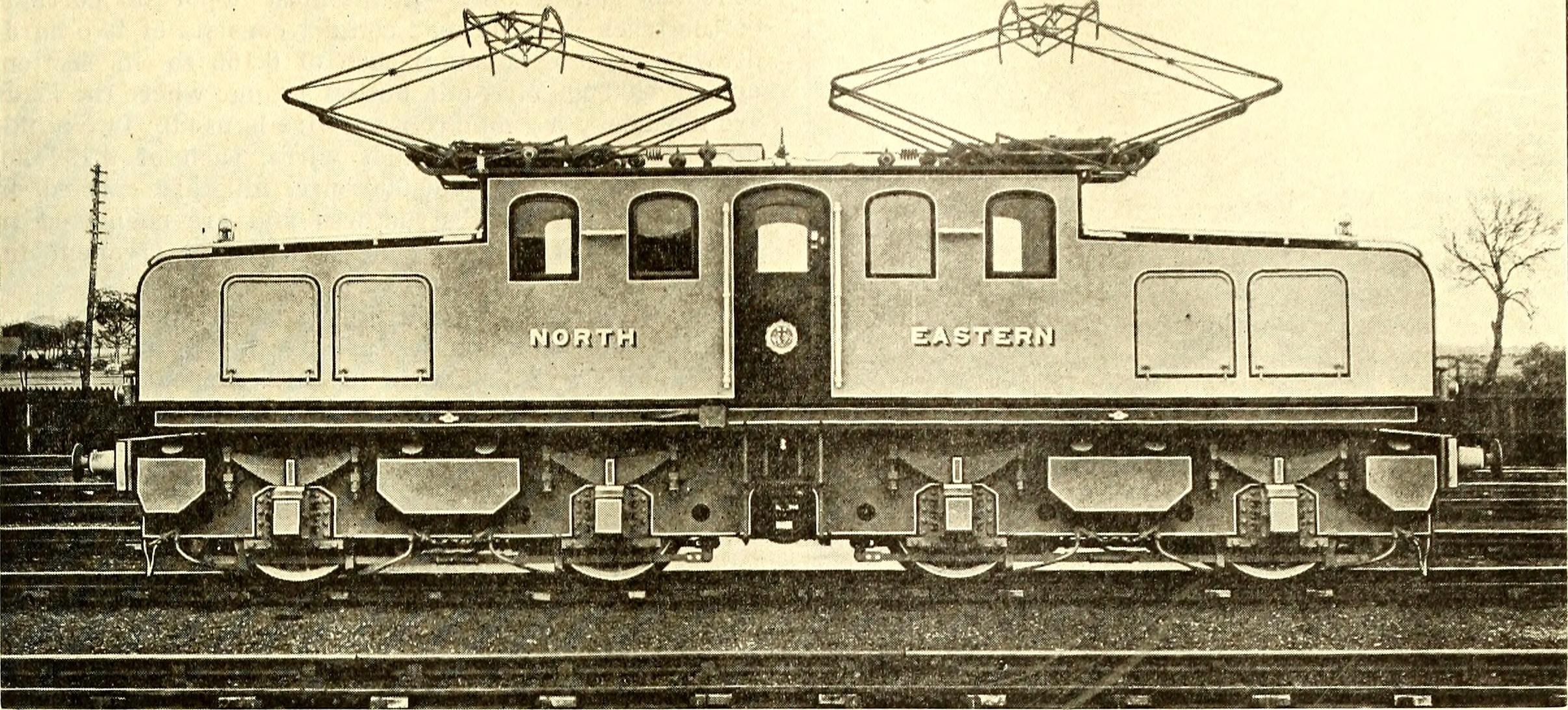 Title: Electric railway journal Year: 1908 (1900s) Authors: Subjects: Electric railroads Publisher: (New York) McGraw Hill Pub. Co Text Appearing Before Image: BRITISH FREIGHT ELECTRIFICATION—TYPICAL OVERHEAD CONSTRUCTION ON TANGENT TRACK V July 1, 1916) ELECTRIC RAILWAY JOURNAL 5 Text Appearing After Image: BRITISH FREIGHT ELECTRIFICATION—SIDE VIEW OF LOCOMOTIVE consists mainly of empty cars that are being returnedto the yards at Shildon. Locomotives The locomotives are designed to haul trains weighing1400 tons at a speed of not less than 25 m.p.h. on thelevel. They were designed and built at the railroadcompanys shop, the electrical equipment having beeninstalled by Siemens Brothers Dynamo Works, Ltd.,Stafford. The construction is of the articulated-trucktype, the trucks being connected by means of a buffercoupling arranged for lateral movement with verticalrigidity. The trucks are held together by a drawbarand spring, which can be adjusted for tension, butwhich cannot be subjected to excessive compression, asa portion of the coupling between trucks receives thebuffing stresses directly through the truck frames. Thecab is at the center of the engine, and sloping ends areprovided to contain the resistance, contactors, switchesand all high-tension electrical apparatus. The panto-graphs